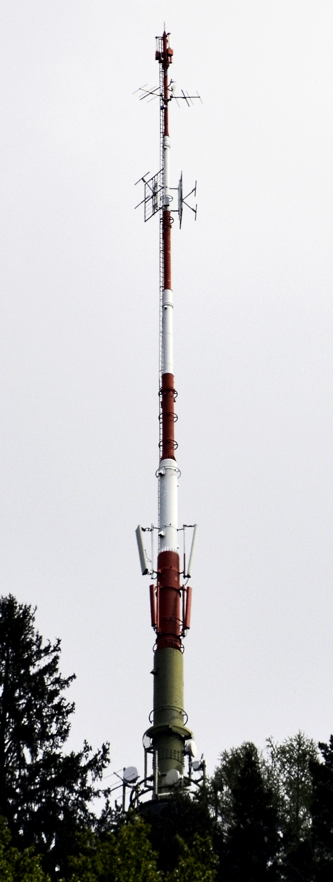 The Erbi transmitter in the Microstate Liechtenstein near Vaduz. This structure has been erected in 1993.